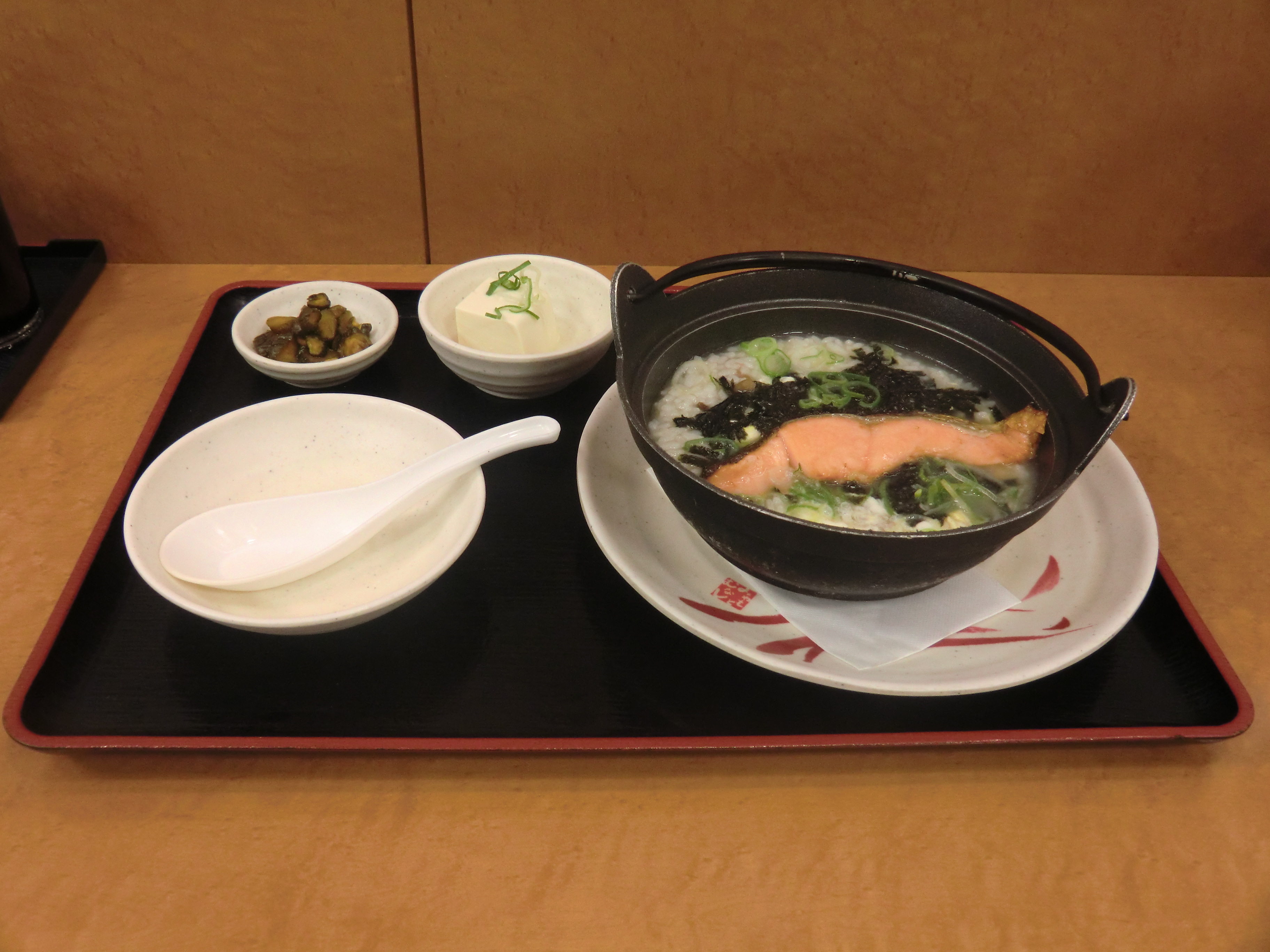 Sake Zosui (鮭雑炊), at Meshiya Miyamoto Munashi (めしや宮本むなし)